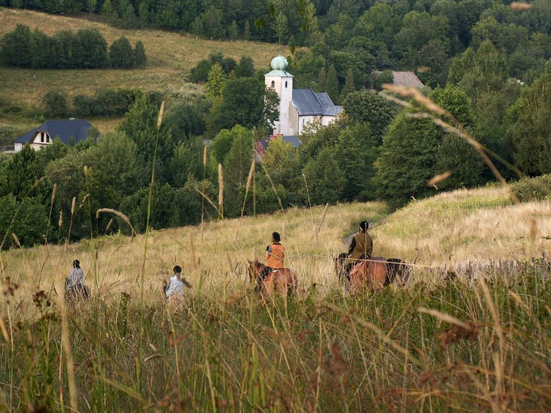 Village Kąty Bystrzyckie in municipality Lądek-Zdrój (Poland).